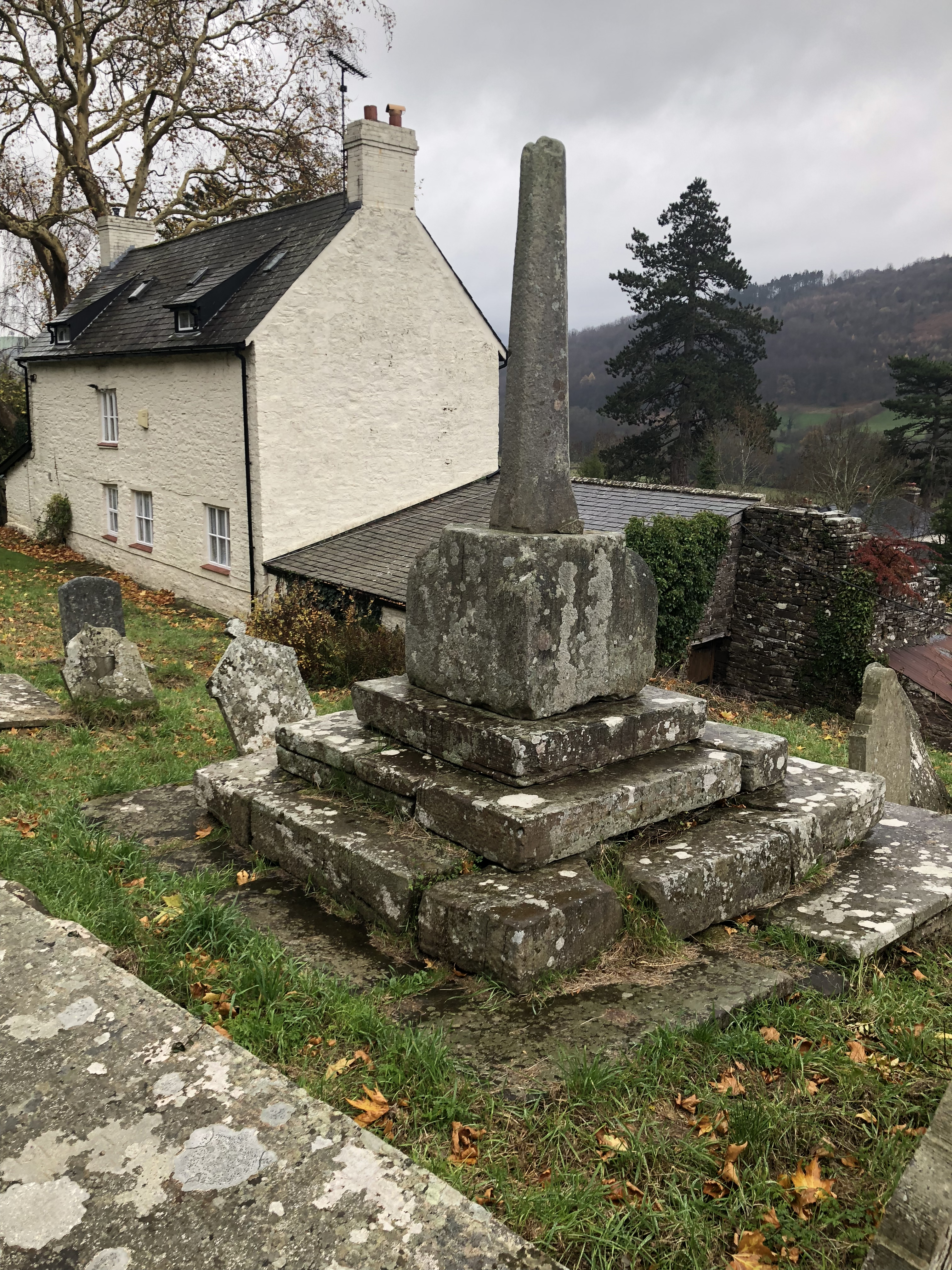 Church cross, St Martin's, Cwmyoy, Monmouthshire